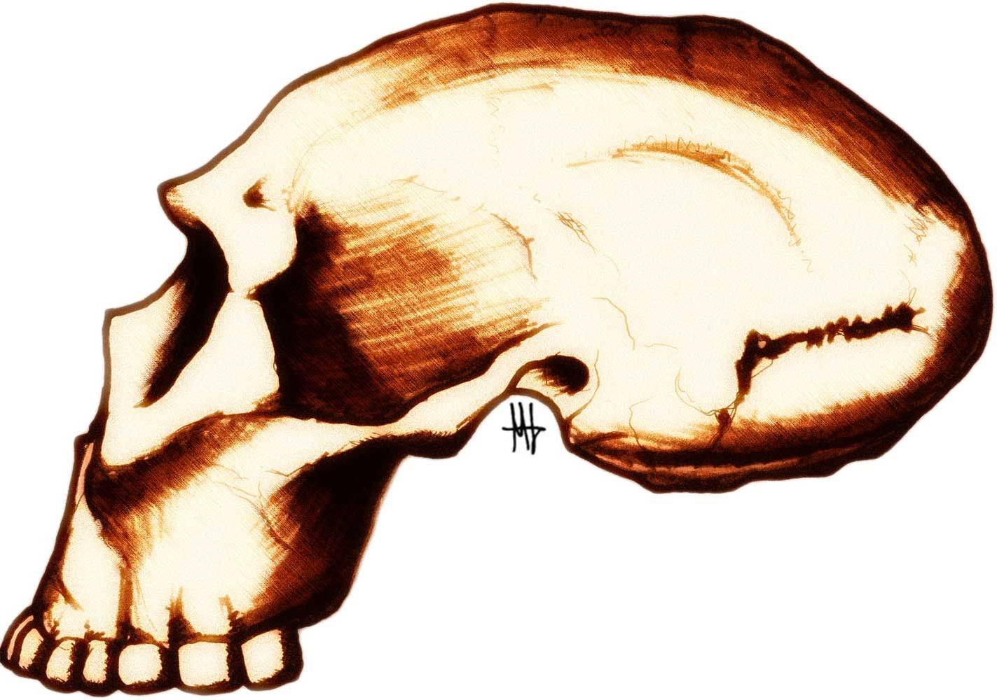 Dmanisi skull D-2282 reconstructed: The cranium vault retains much of the face and a fragment of the maxilla but has post-mortem deformation.